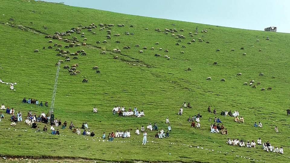 People and sheep, Baddar, South Waziristan Agency, FATA, Pakistan